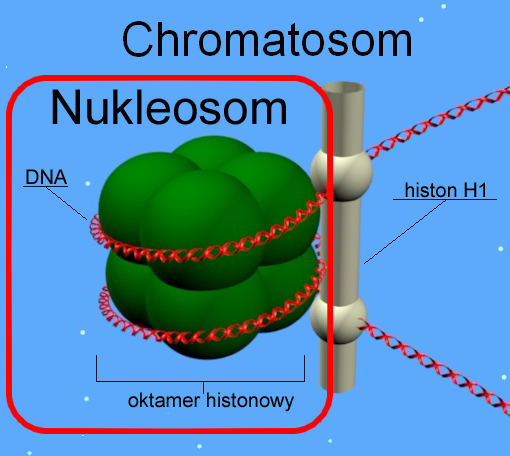 Chromatosom